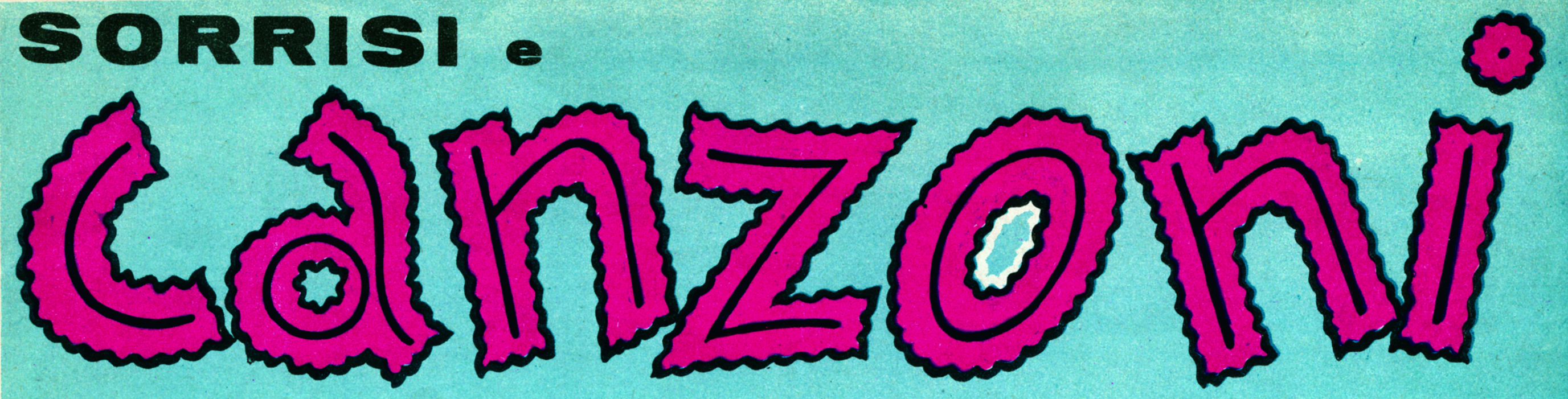 The portrait of the young italian singer Iride Luppi on the cover of the first number of the magazine TV Sorrisi e Canzoni (its first name was "Sorrisi e Canzoni d'Italia"). Italy, October 1952.